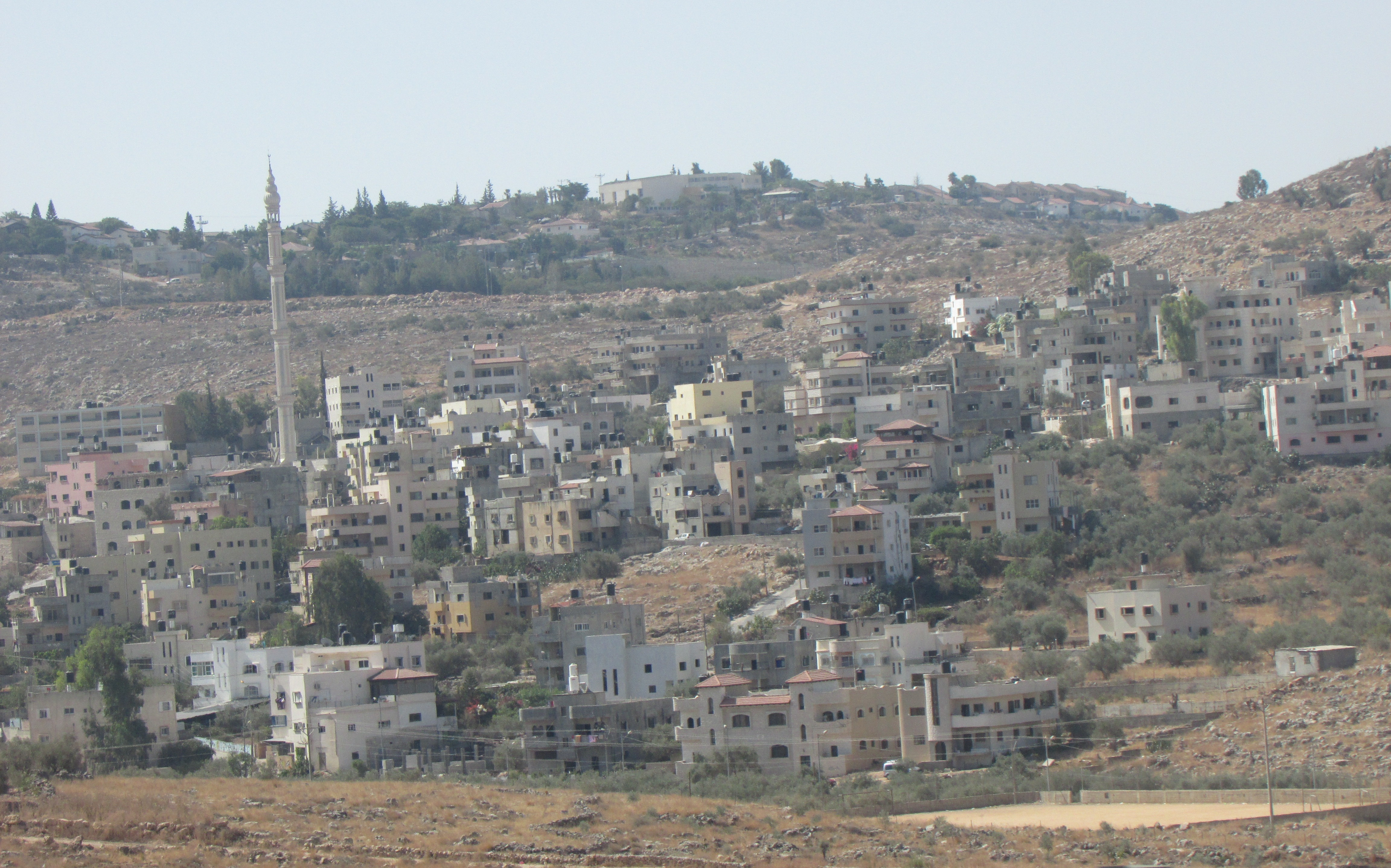 Shabtin below and Nilli above